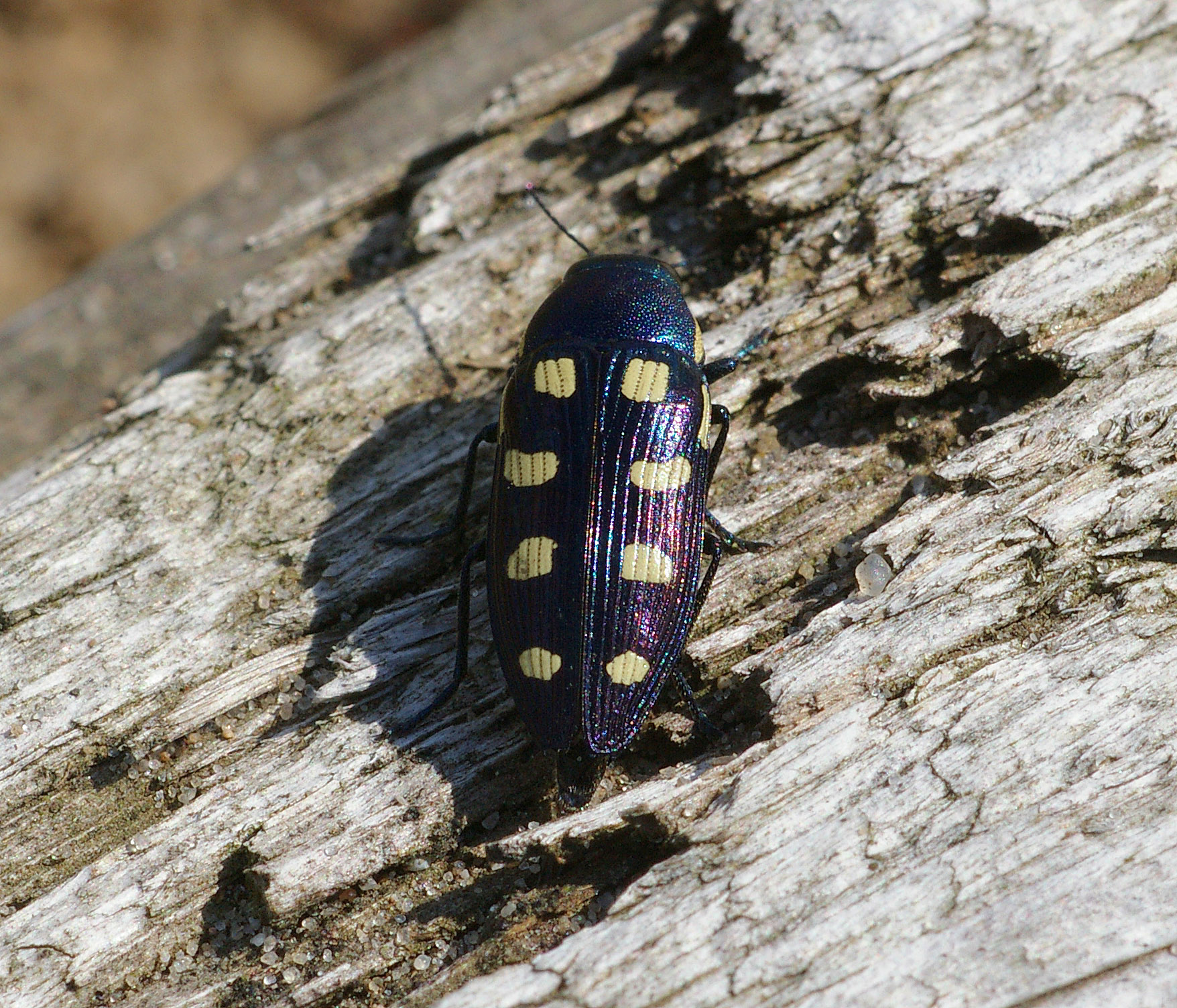 A female beetle of Buprestis octoguttata, ~15 mm long, laying eggs into chinks of dead wood.